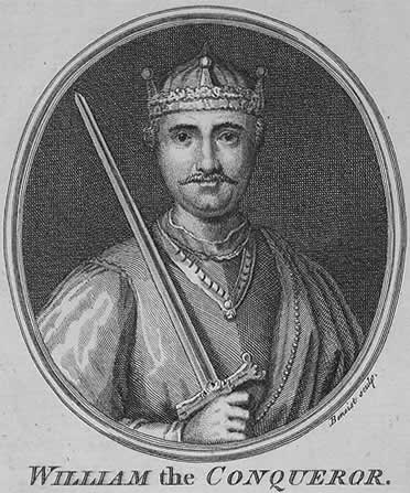 William I of England